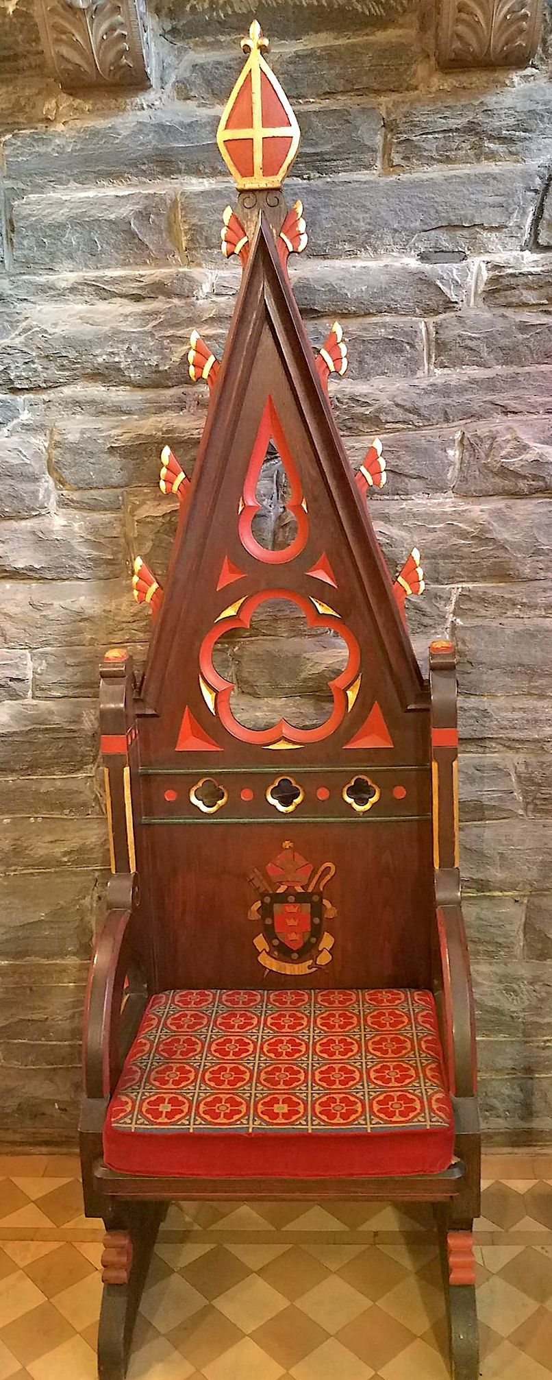 Cathedra, Church of the Good Shepherd